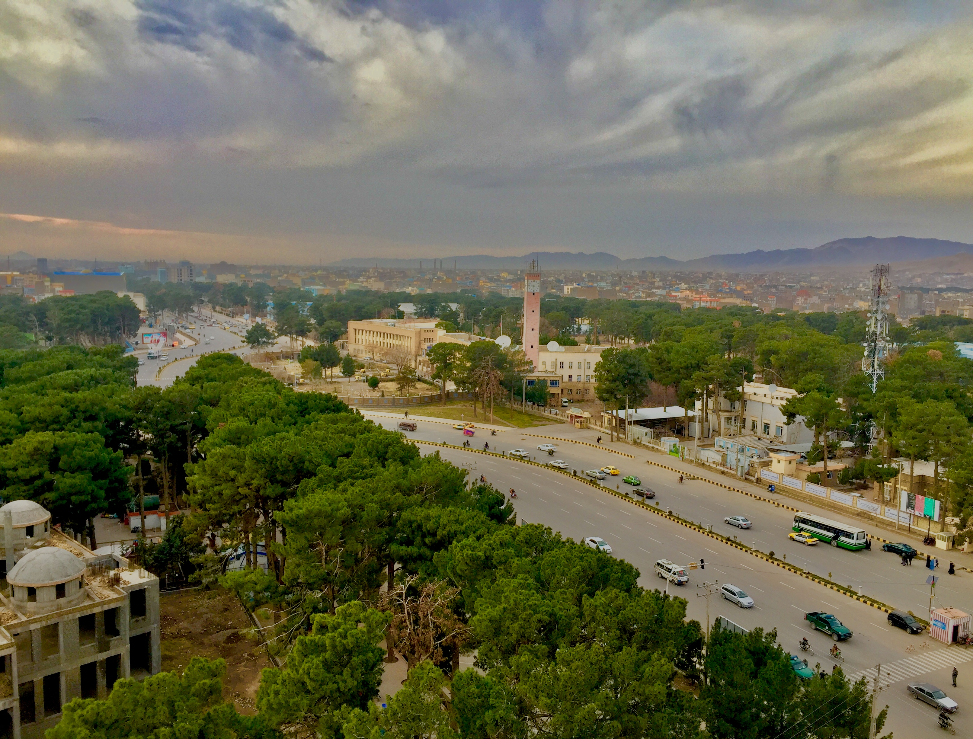 Herat city view in 2018